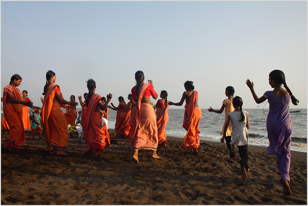 Women and children playing 'garba', a popular folk dance of Gujarat where they move around in a circle, clapping and with specific rhythm according to beat of the drum.